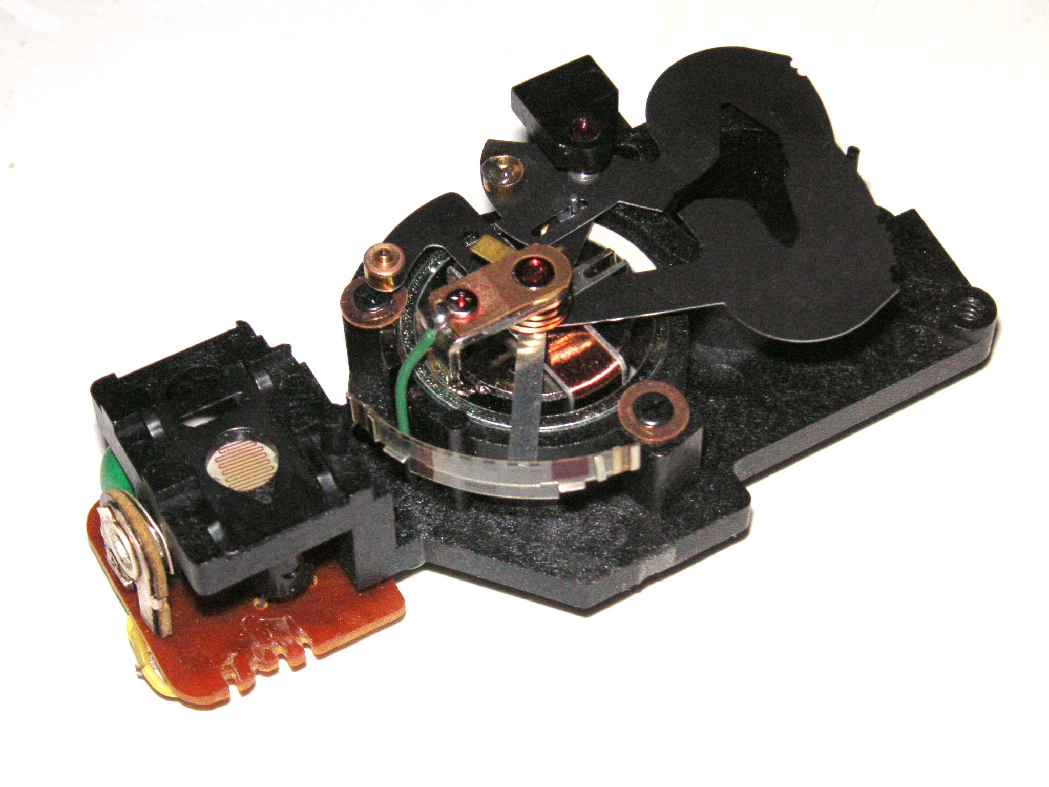 An automatic exposure meter with a galvanometer and a CdS photoresistor. Photo 2005 by USER:Janke, released to